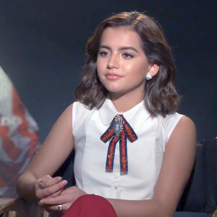 Isabela Moner screenshot from interview. Isabela Moner on Filming the Action in 'Sicario: Day of the Soldado'.